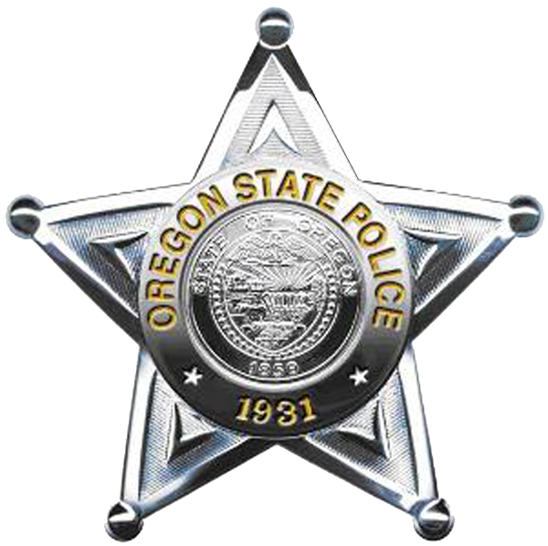 Image is similar, if not identical, to the Oregon State Police badge. Made with Photoshop.